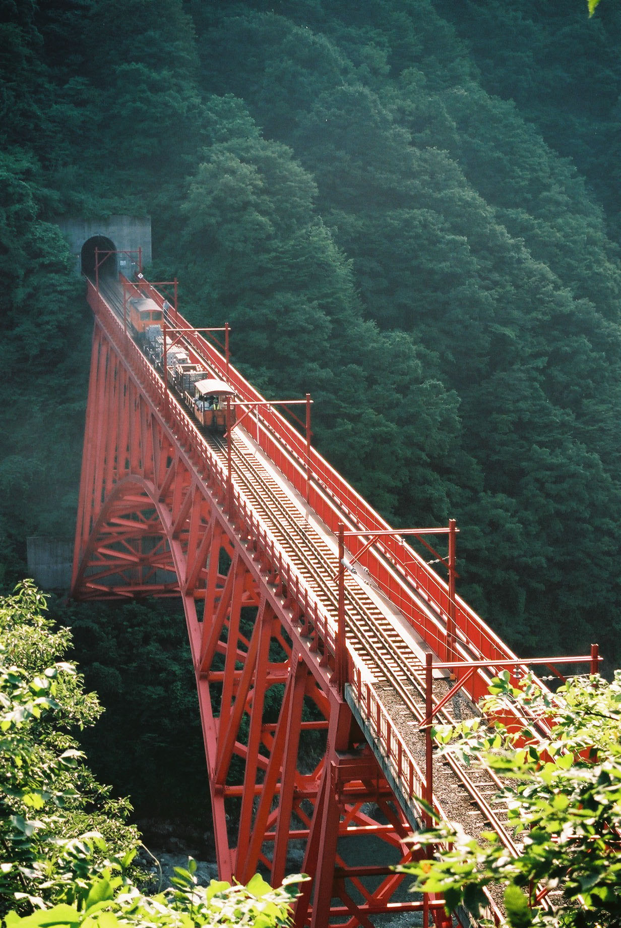 Kurobe Gorge Railway (rotated version of the original flickr image)